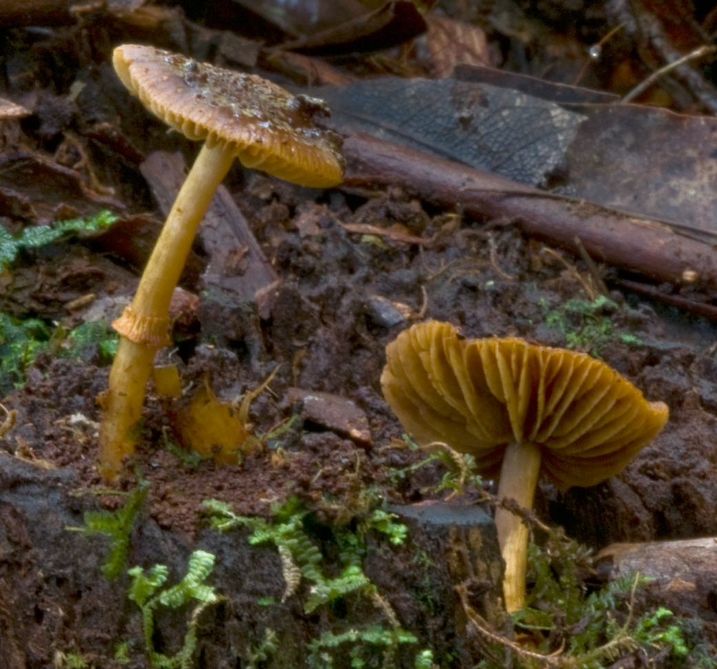 Fruit bodies of the fungus Descolea recedens. Specimens photographed in Comboyne State Forest, New South Wales, Australia.